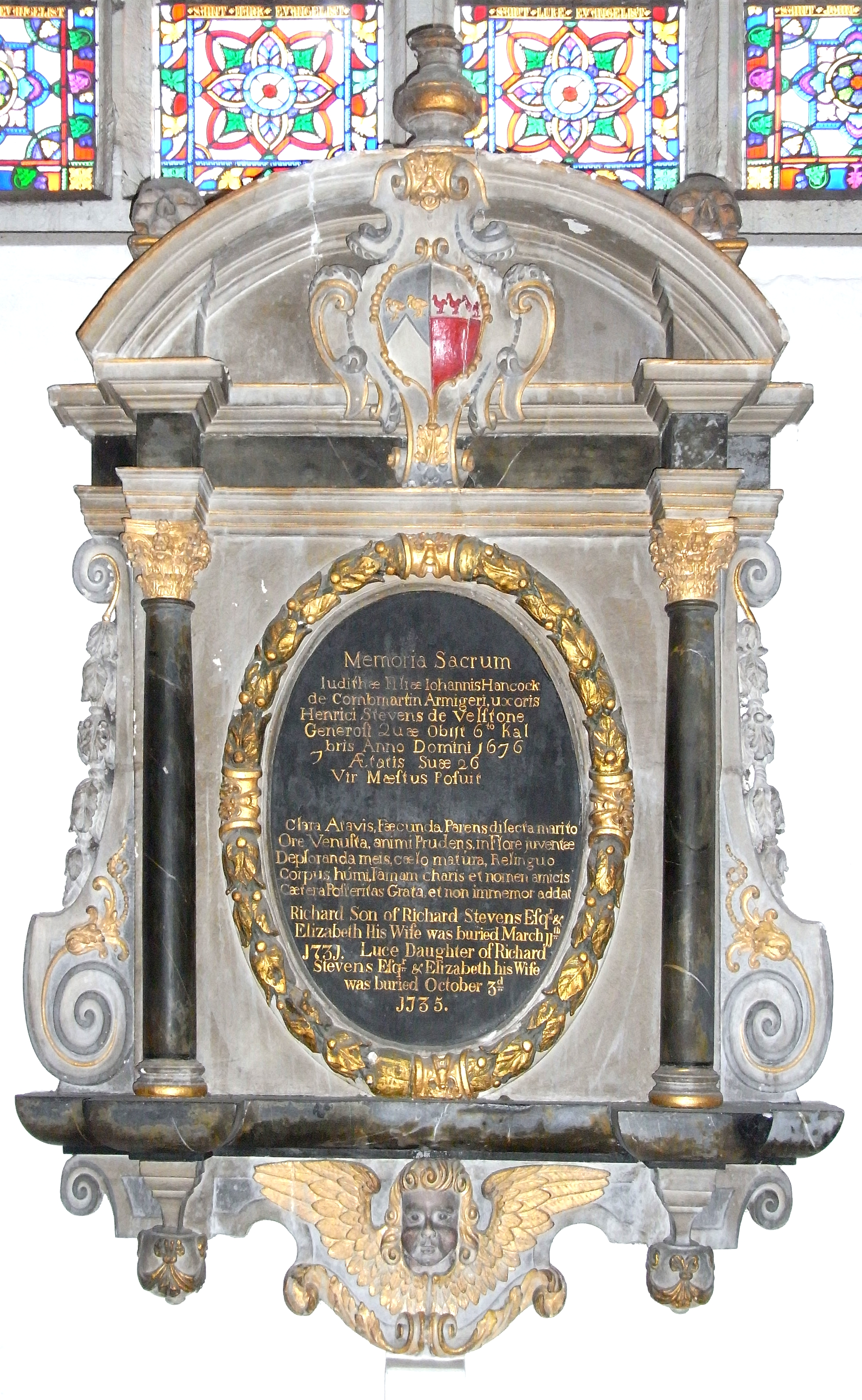 Monument to Judith Hancock (1650-1676), wife of Henry Stevens (1617-post 1675) of Vielstone in the parish of Buckland Brewer, son and heir of William Stevens (d.1648) of Great Torrington. East wall of south aisle. Inscription: Memoria Sacrum Judithae filiae Johannis Hancock de Combmartin, Armigeri, uxoris Henrici Stevens de Velstone, Generosi, quae obiit 6to (sexto) Kal(endae) 7bris (Septembris) Anno Domini 1676 aetatis suae 26. Vir maestus posuit ("Sacred to the memory of Judith, daughter of John Hancock of Combe Martin, Esquire, wife of Henry Stevens of Vielstone, Gentleman, who departed the 6th of the month of September in the Year of Our Lord 1676 of her age 26. Her sorrowful husband erected this")